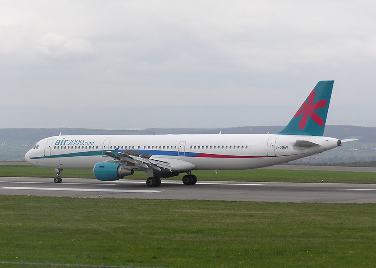 Air2000 Airbus A321-200 landing at Bristol Airport, Bristol, England. air2000 is now known as First Choice Airways, and the fleet now sport these fleetnames to reflect this change.